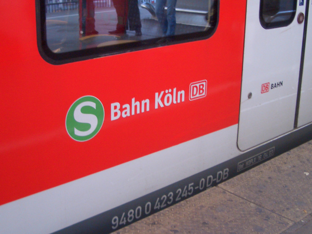 The S-Bahn Trains in Cologne have now the branding S-Bahn Köln which is written on every train since end of 2008.